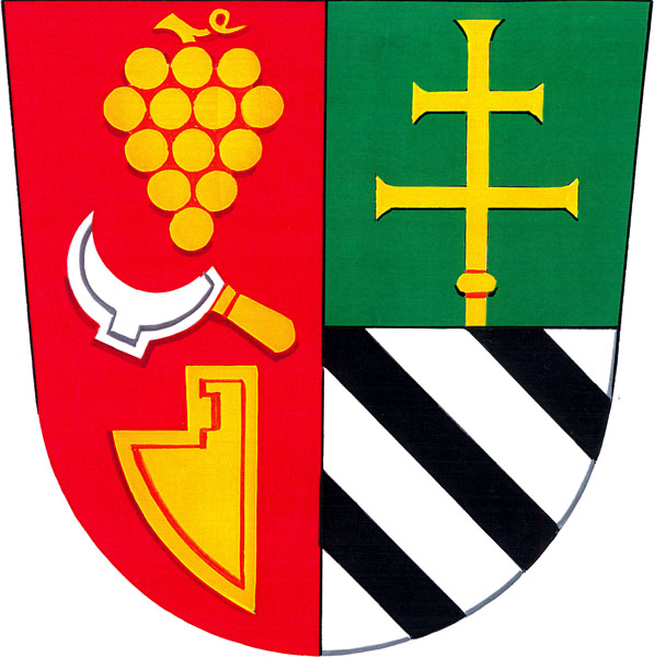 Municipal coat of arms of Rašovice village, Vyškov District, Czech Republic.